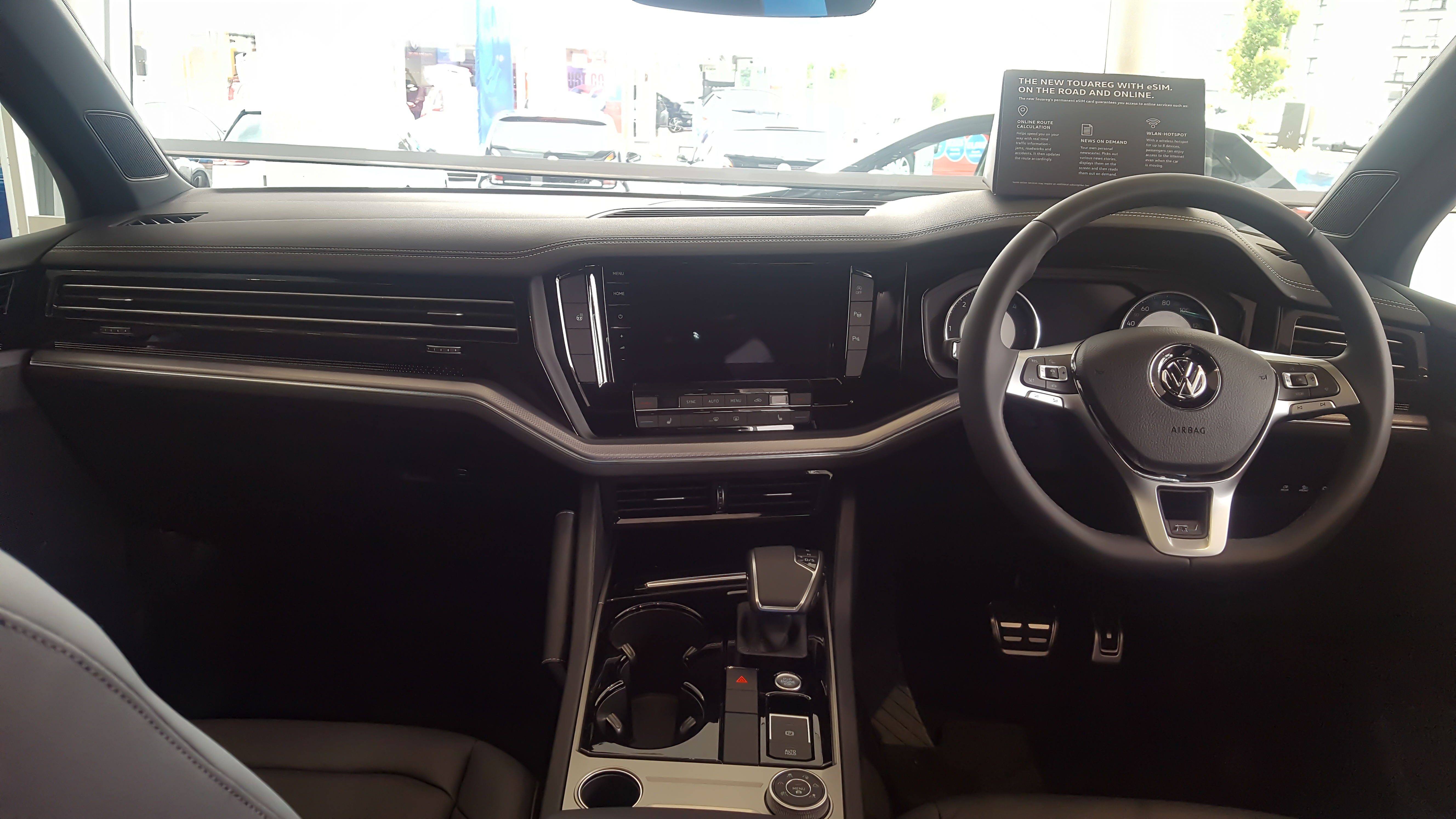 2018 Volkswagen Touareg Interior Taken in Stratford-upon-Avon